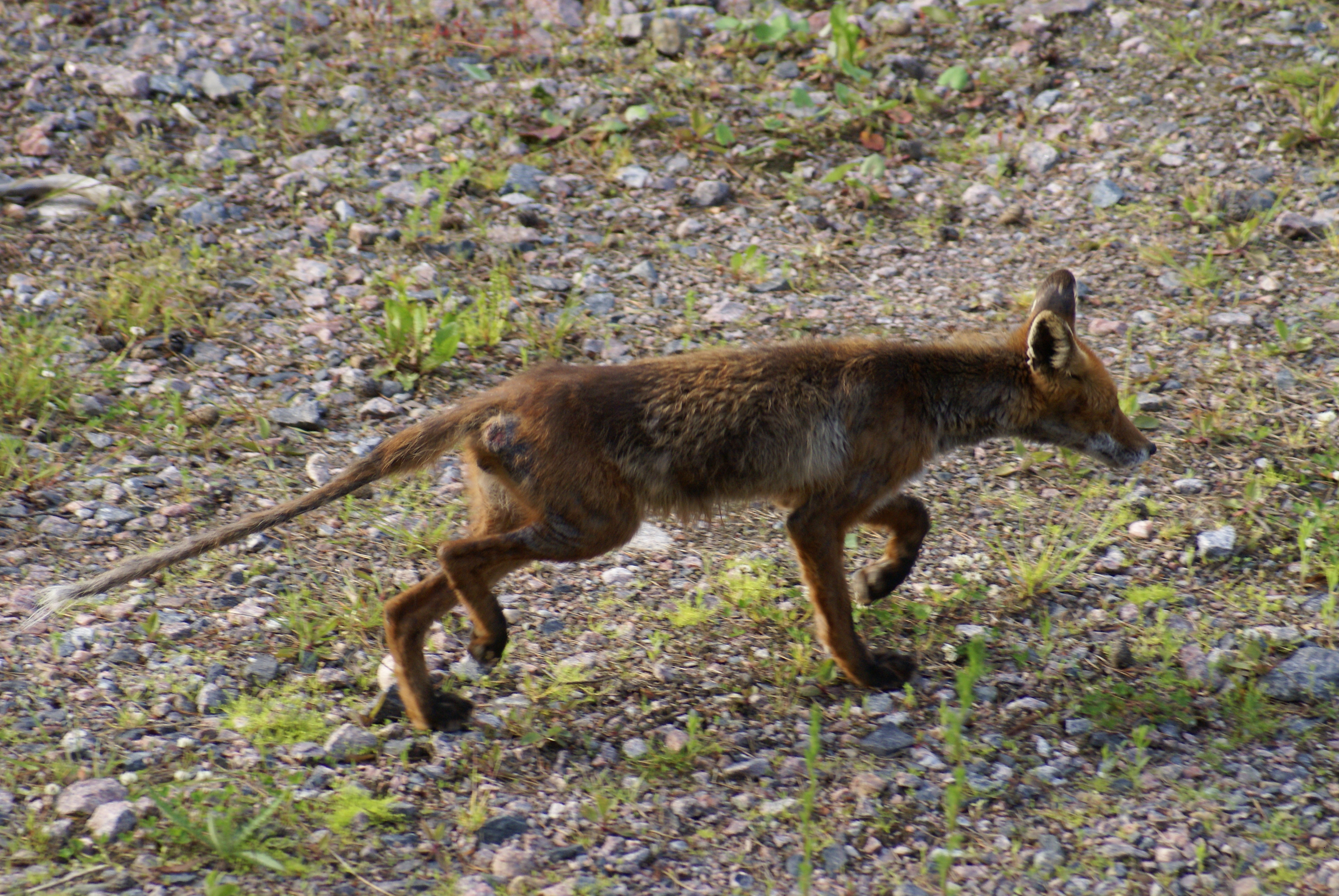 Fox with scabies